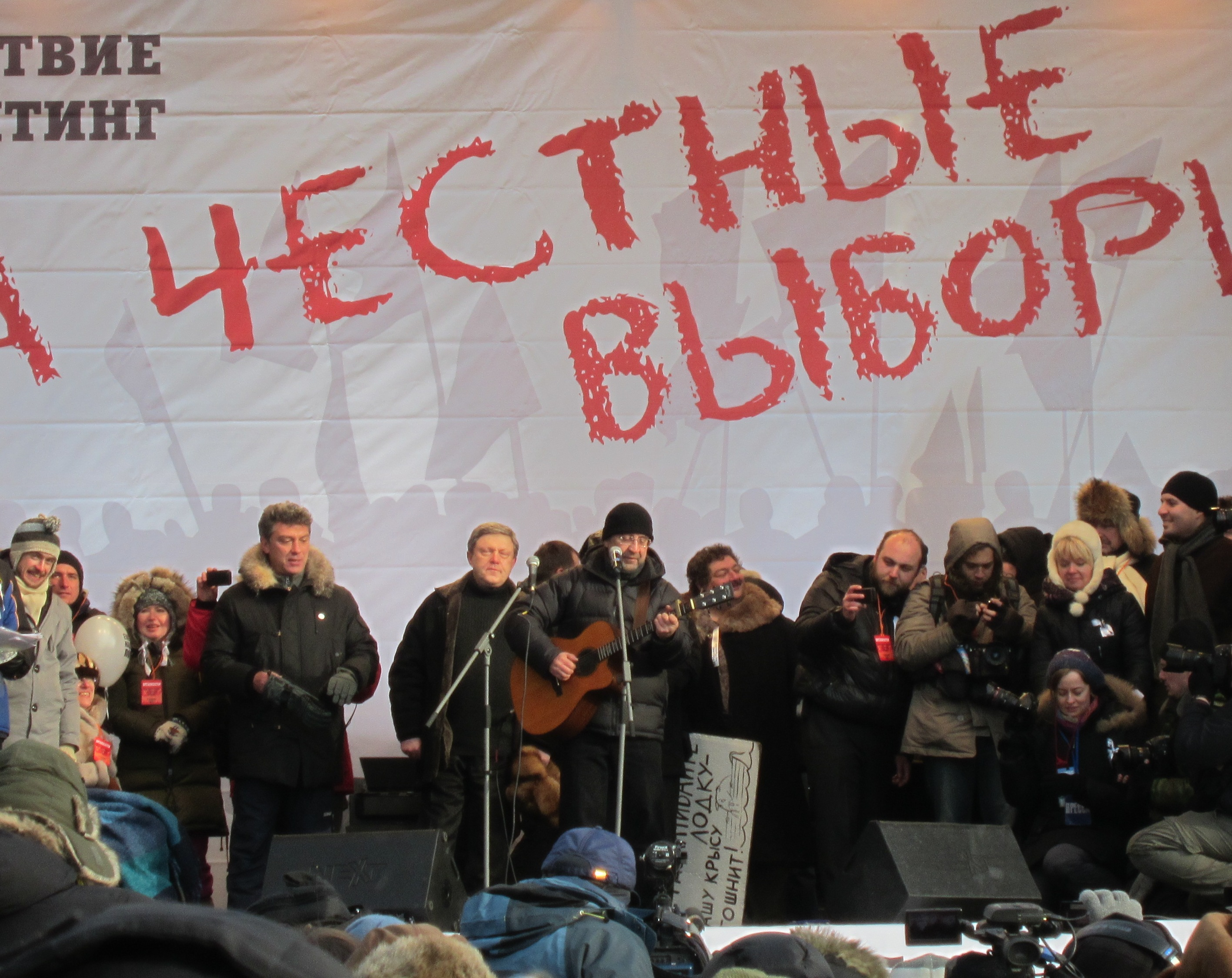 Yuri Shevchuk sings his song "Yedu ya na Rodinu" at Bolotnaya Square